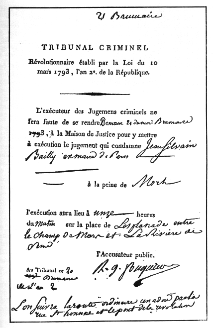 Order of execution for Bailly signed by Fouquier-Tinville.